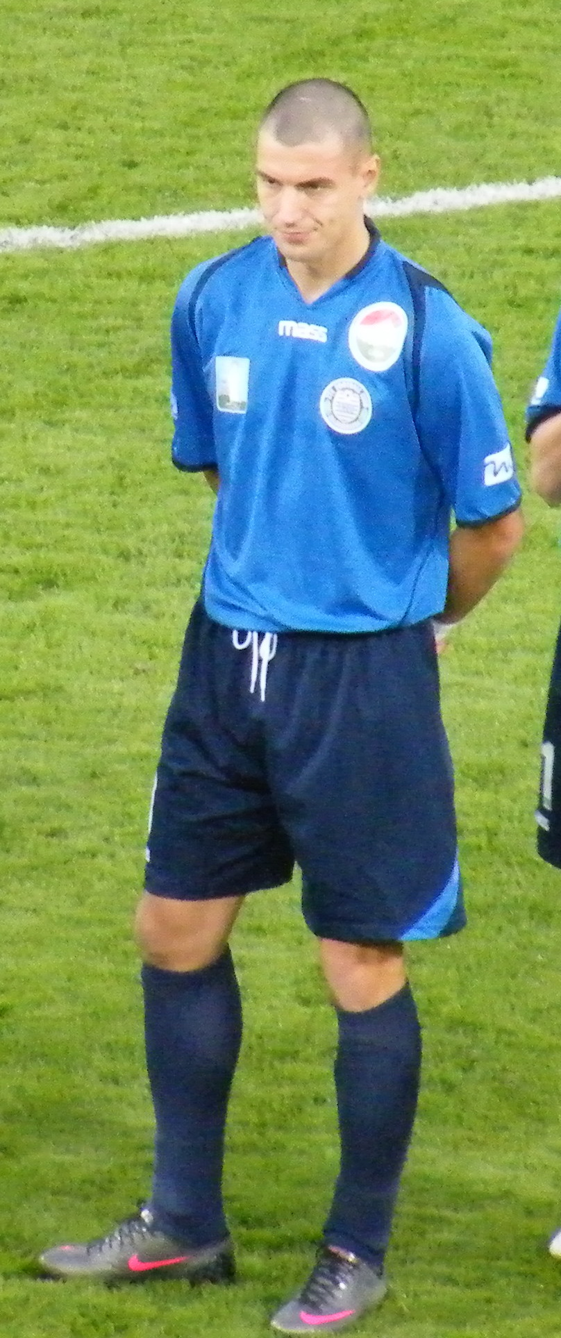 Róbert Waltner Hungarian football player